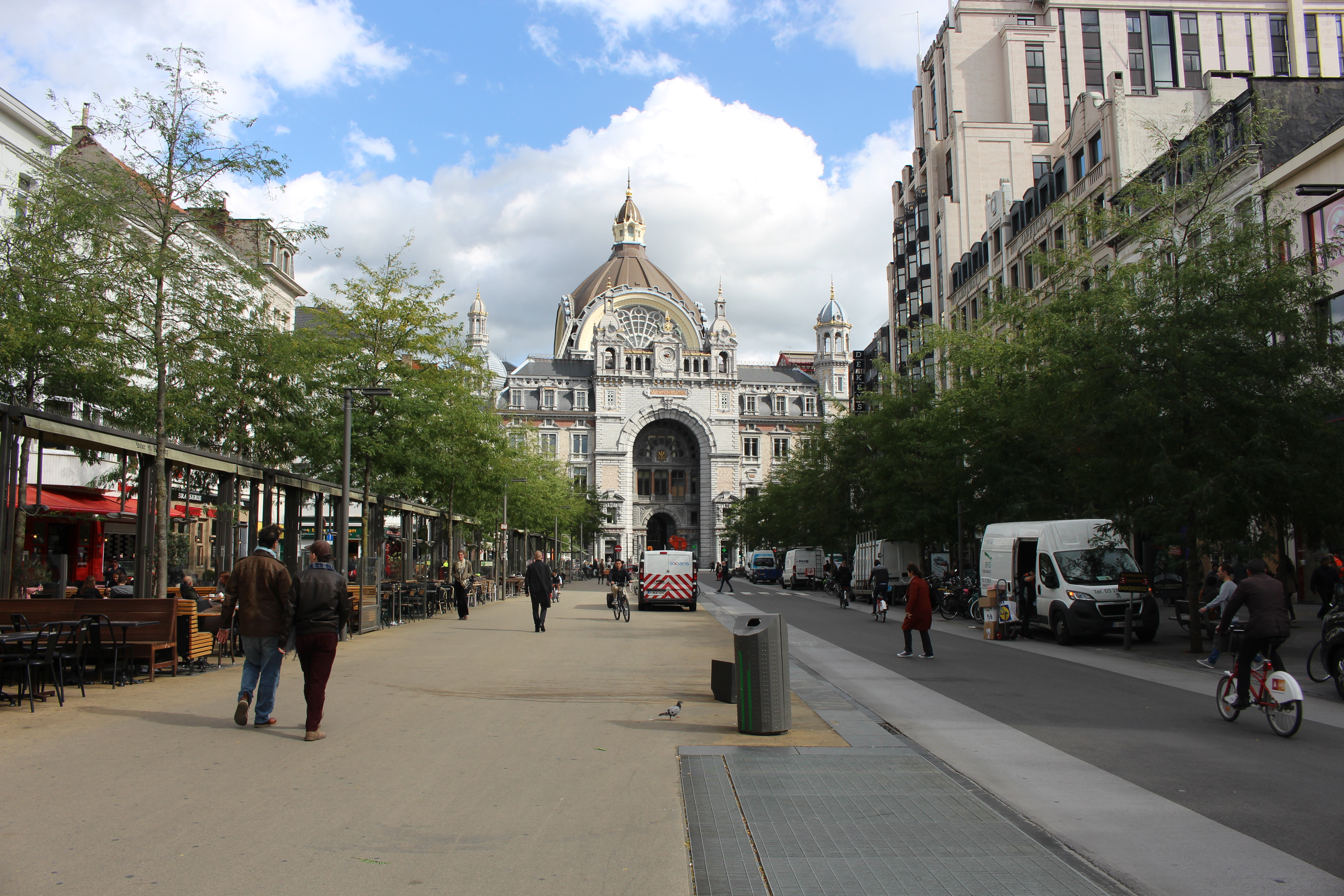 The Antwerp Central Station and the Century Center (on the right) seen from the De Keyserlei (postalcode 2018) on September 13th 2017. This photo of immovable heritage has been taken in the Flemish Region